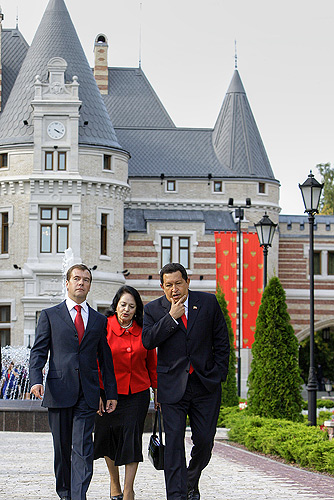 BARVIKHA, MOSCOW REGION. With President of Venezuela Hugo Chavez.